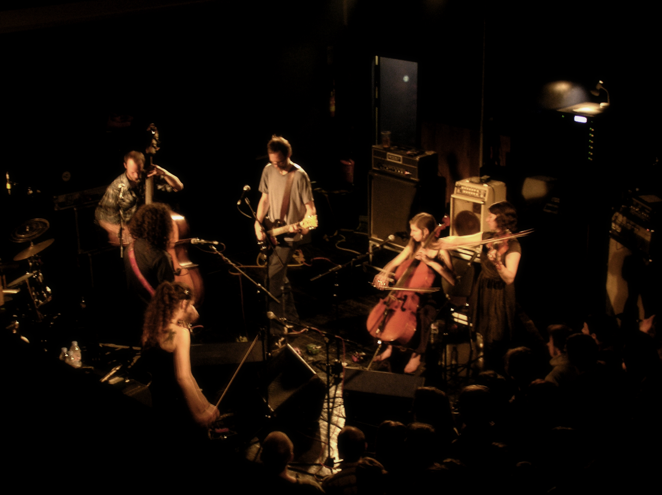 Scott Levine Gilmore, Thierry Amar, Ian Ilavsky. Ringu Girl No. 1 is absent. Obviously. (Text from here)A Silver Mount Zion | Scala | April 07